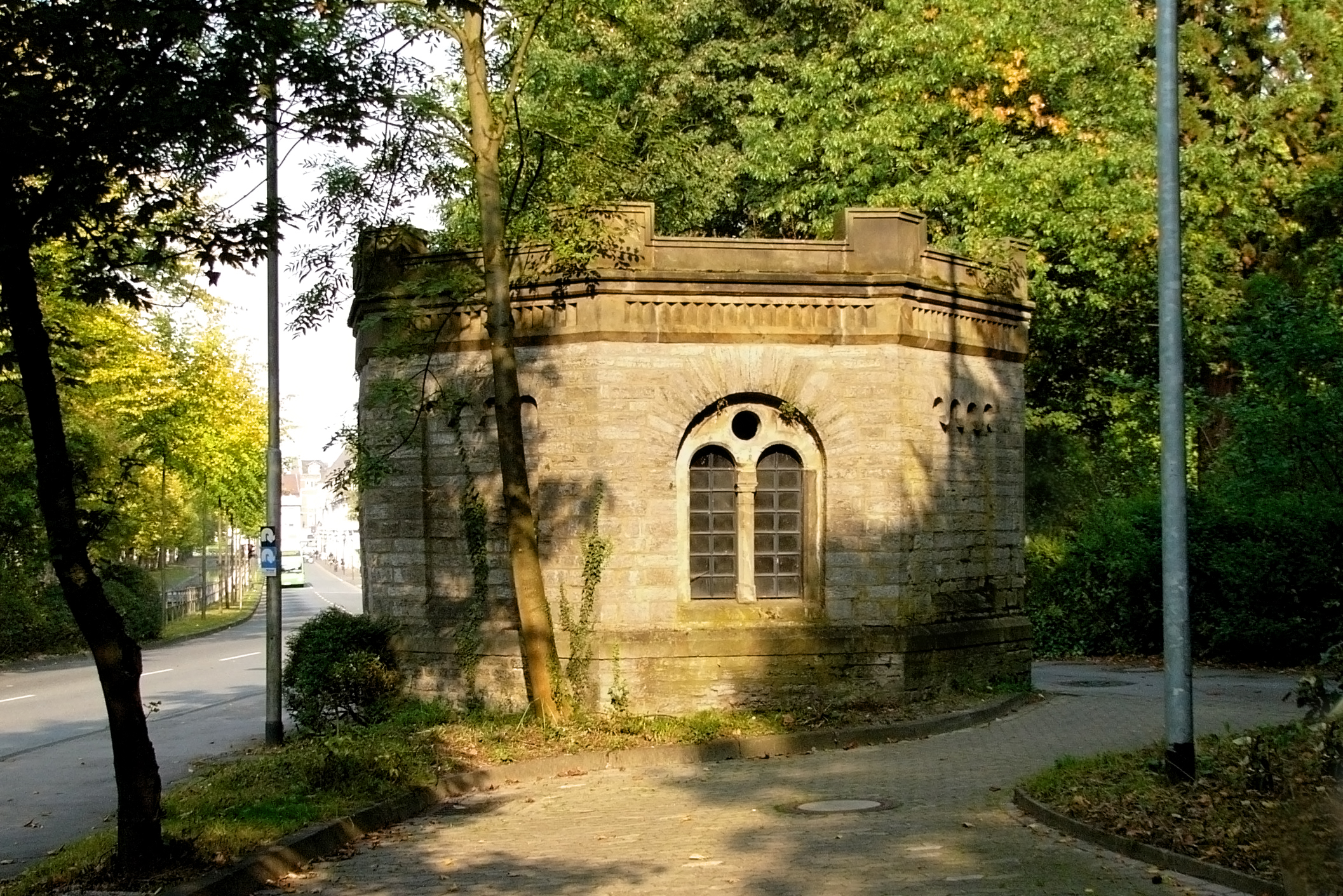 Turbine in Detmold near Palaisgarten